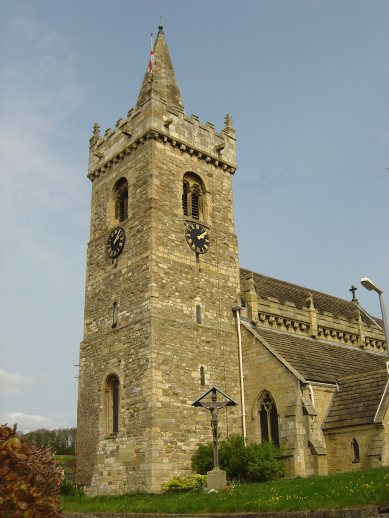 All Saints' parish church, Bramham, West Yorkshire, seen from the southwest